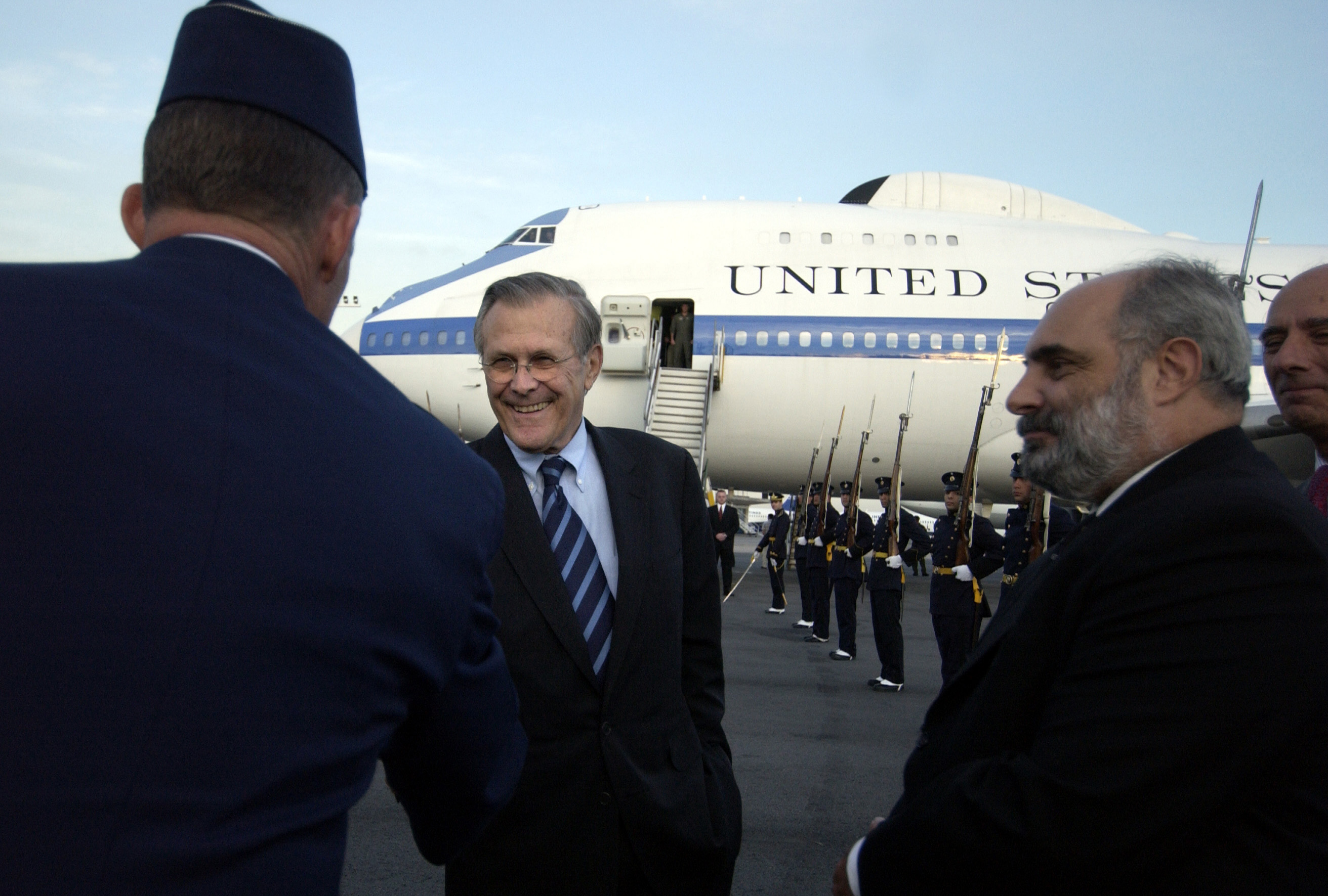 Secretary of Defense Donald H. Rumsfeld (center) shakes hands with Defense Attachè Col. Bill Dalson, U.S. Air Force, after arriving at the Ministro Pistarini de Ezeiza International Airport in Buenos Aires, Argentina, on March 21, 2005. Rumsfeld is traveling to South and Central America to meet with key government officials and his defense counterparts to strengthen bilateral ties.